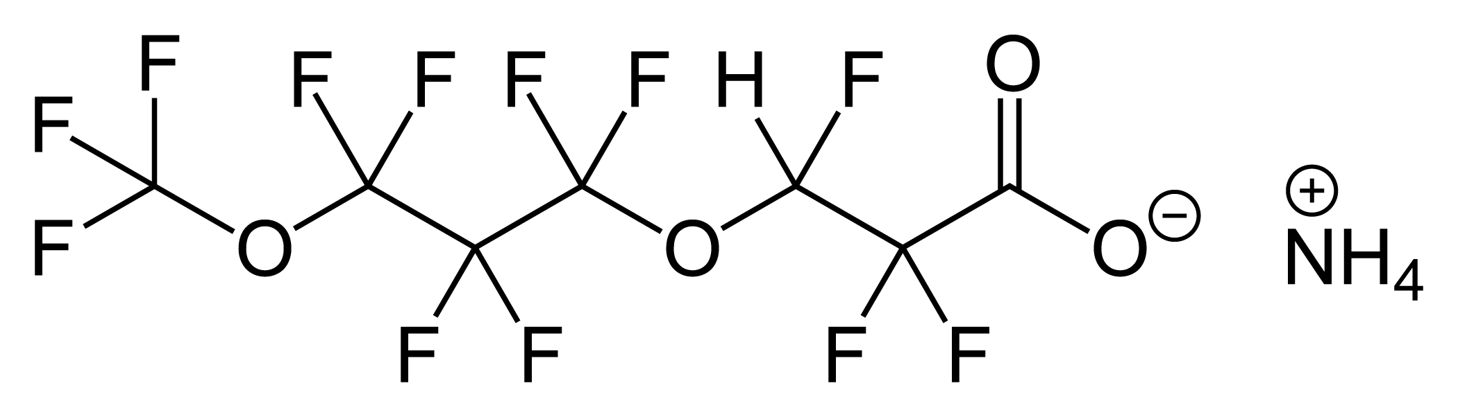 Skeletal formula of ADONA, ammonium 4,8-dioxa-3H-perfluorononanoate. Structure drawn in ChemBioDraw Ultra 12.0.